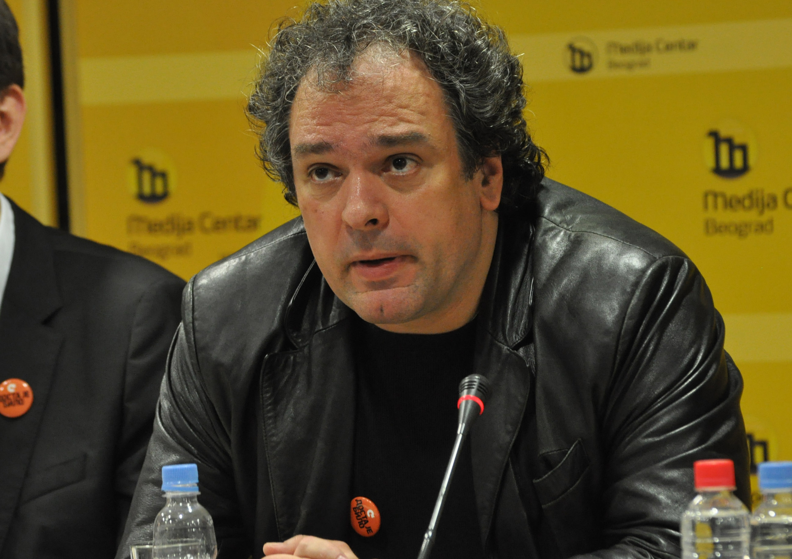 Predrag J. Marković